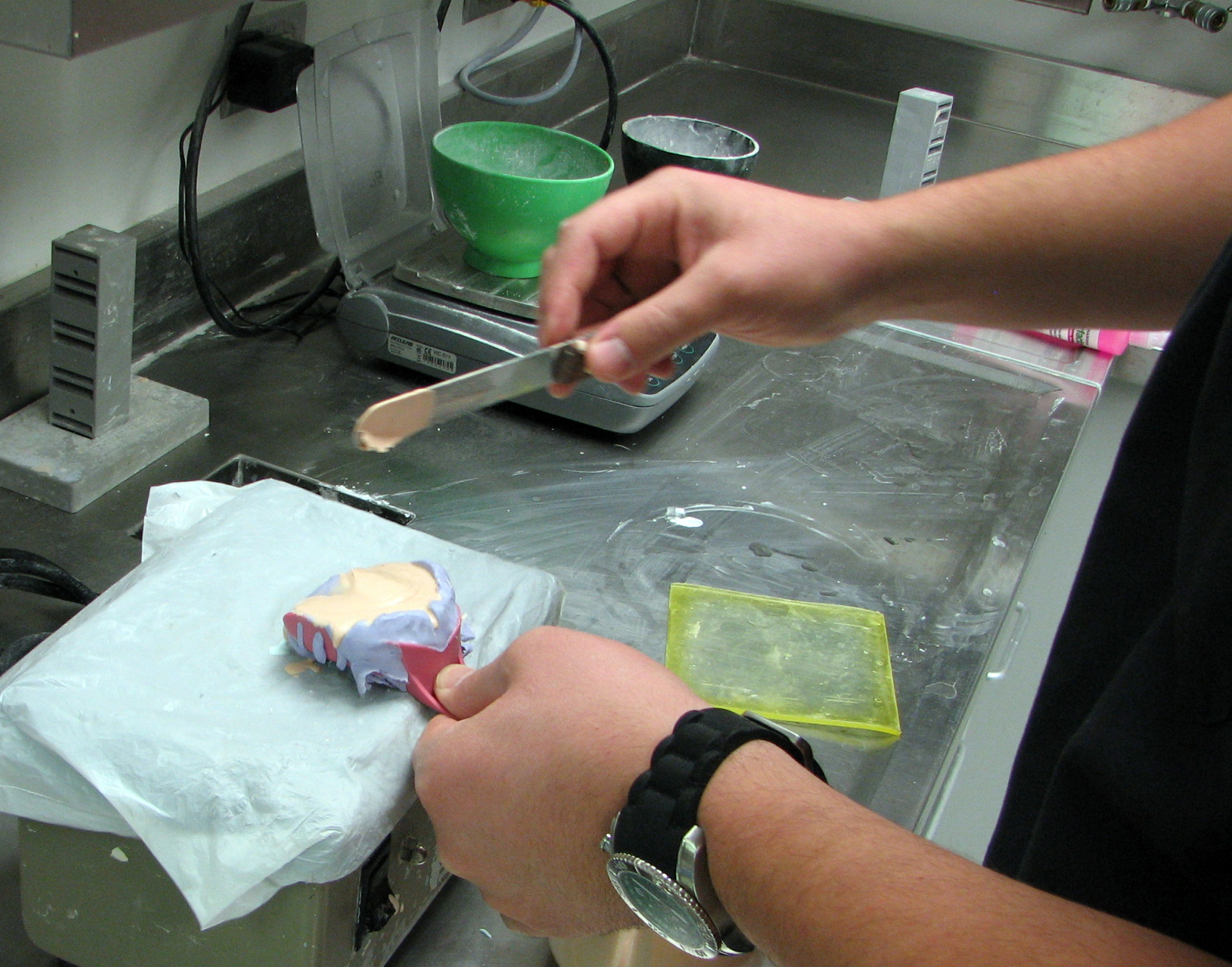 Spc. Mark Romero of El Paso, Texas, pours stone into a dental impression to make a model for fabricating a dental prosthetic at the dental lab in Dental Clinic #3, here, Jan. 11, 2013. Romero has been in the U. S. Army for nine years building smiles. (U. S. Army photo by Sgt. Barry St. Clair)